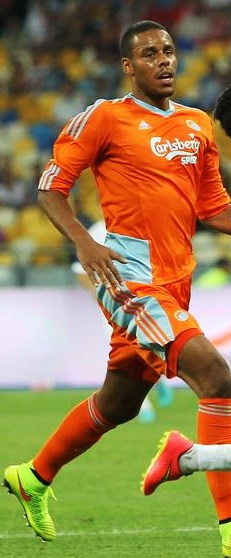 Mathias Jørgensen 2014